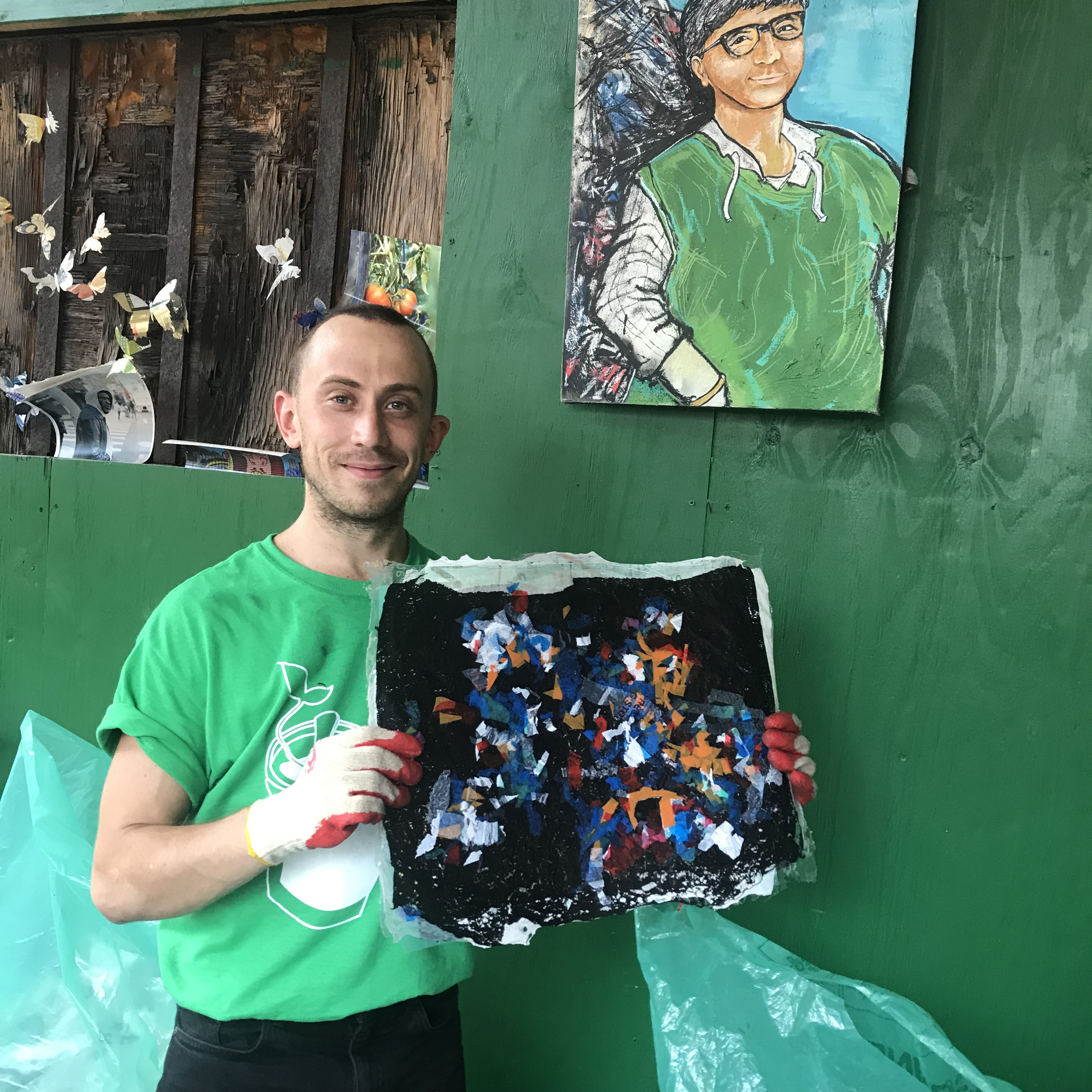 Sure We Can employee, flanked by a painting of Ana Martinez de Luco, co-founder of Sure We Can, holds a sample sheet of the upcycled plastic film product the redemption center is working on. The upcycling group at Sure We Can aims to turn single use plastic bags/film into reusable thicker plastic material.